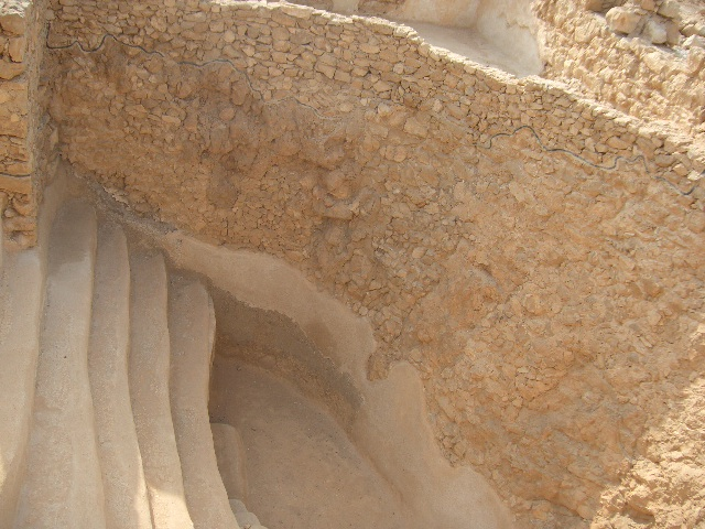 A mikvah in the palace on Masada